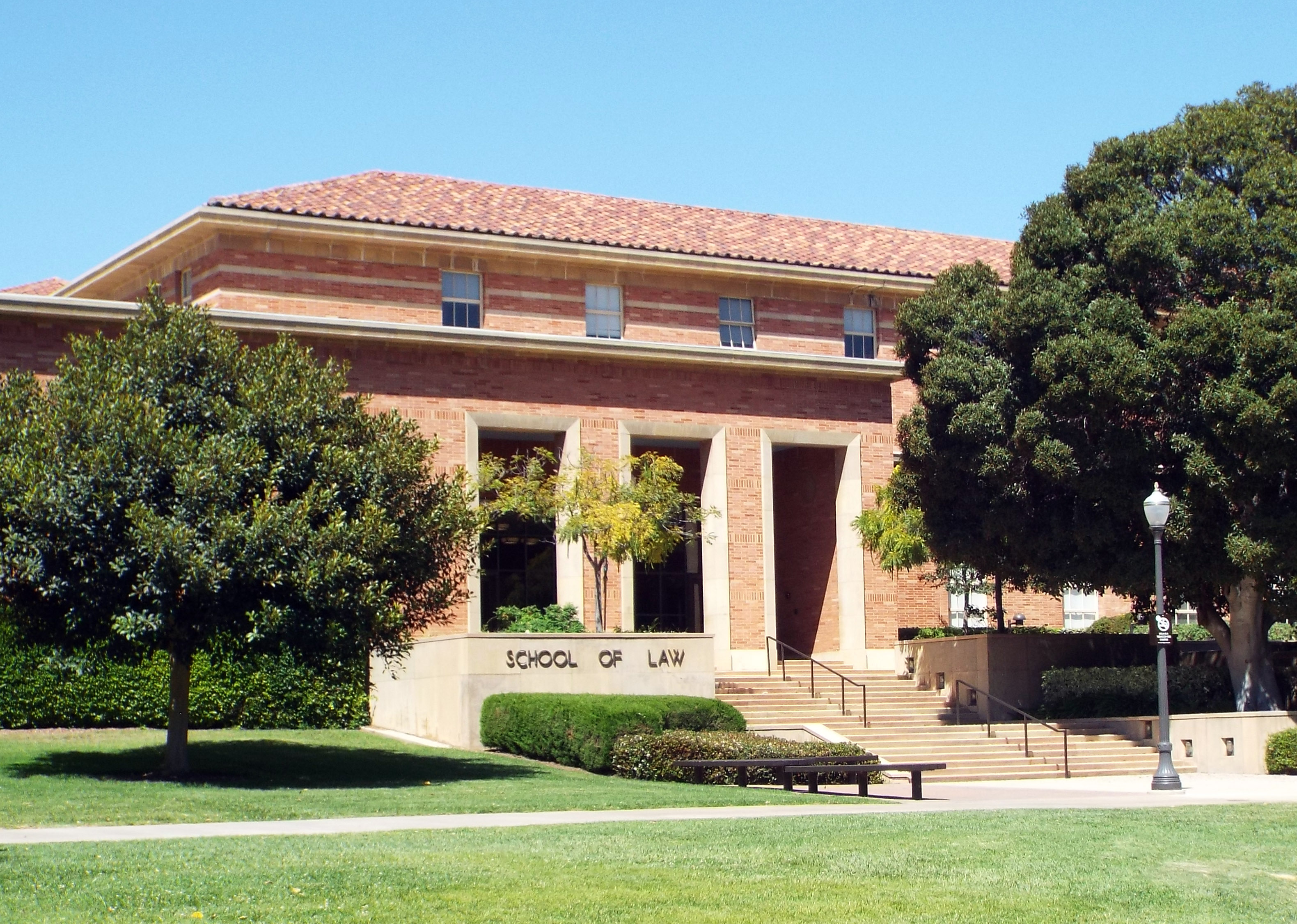 The south entrance to the UCLA School of Law on the campus of the University of California in Westwood. Of the various entrances to the building, the south entrance is the largest and grandest in appearance.